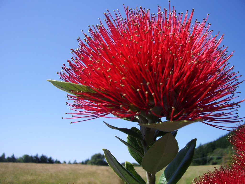 Flower buds of the Pōhutukawa tree (Metrosideros excelsa), also called New Zealand Christmas TreePōhutukawa in Waikanae, Wellington District, Northern Island, New Zealand